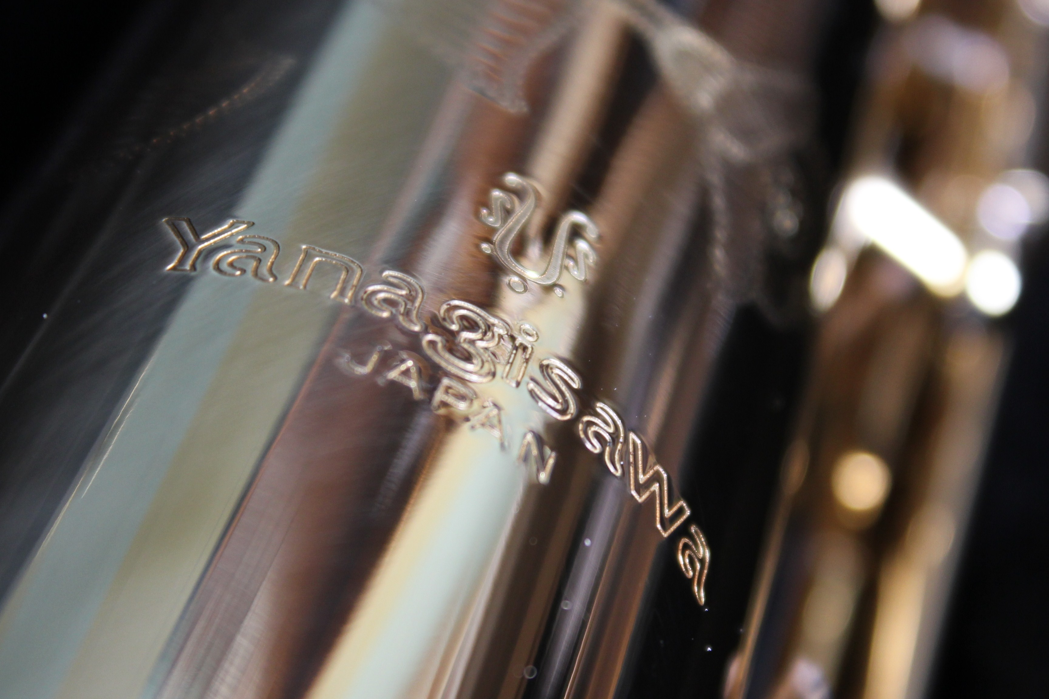 Yanagisawa's logo on a soprno saxophone